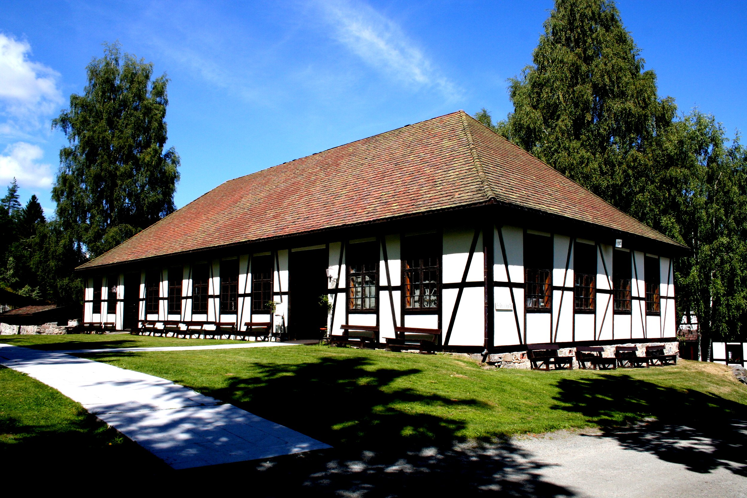 The large house containing the melting ovens used for melting cobalt and making blue colour at the Blaafarværket, Modum in Norway. Today, the house is part of the museum Blaafarveværket.